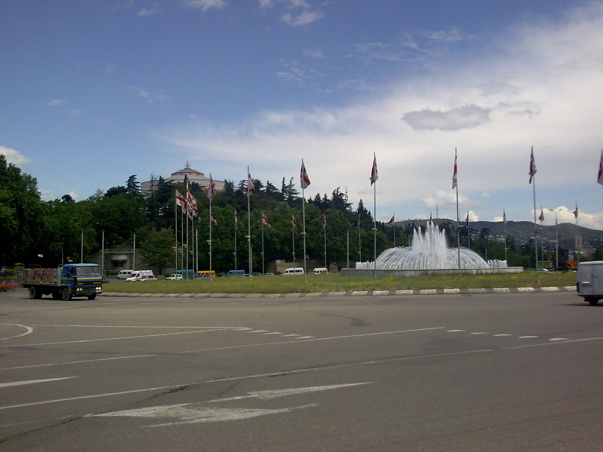 Heroes' Square, Tbilisi